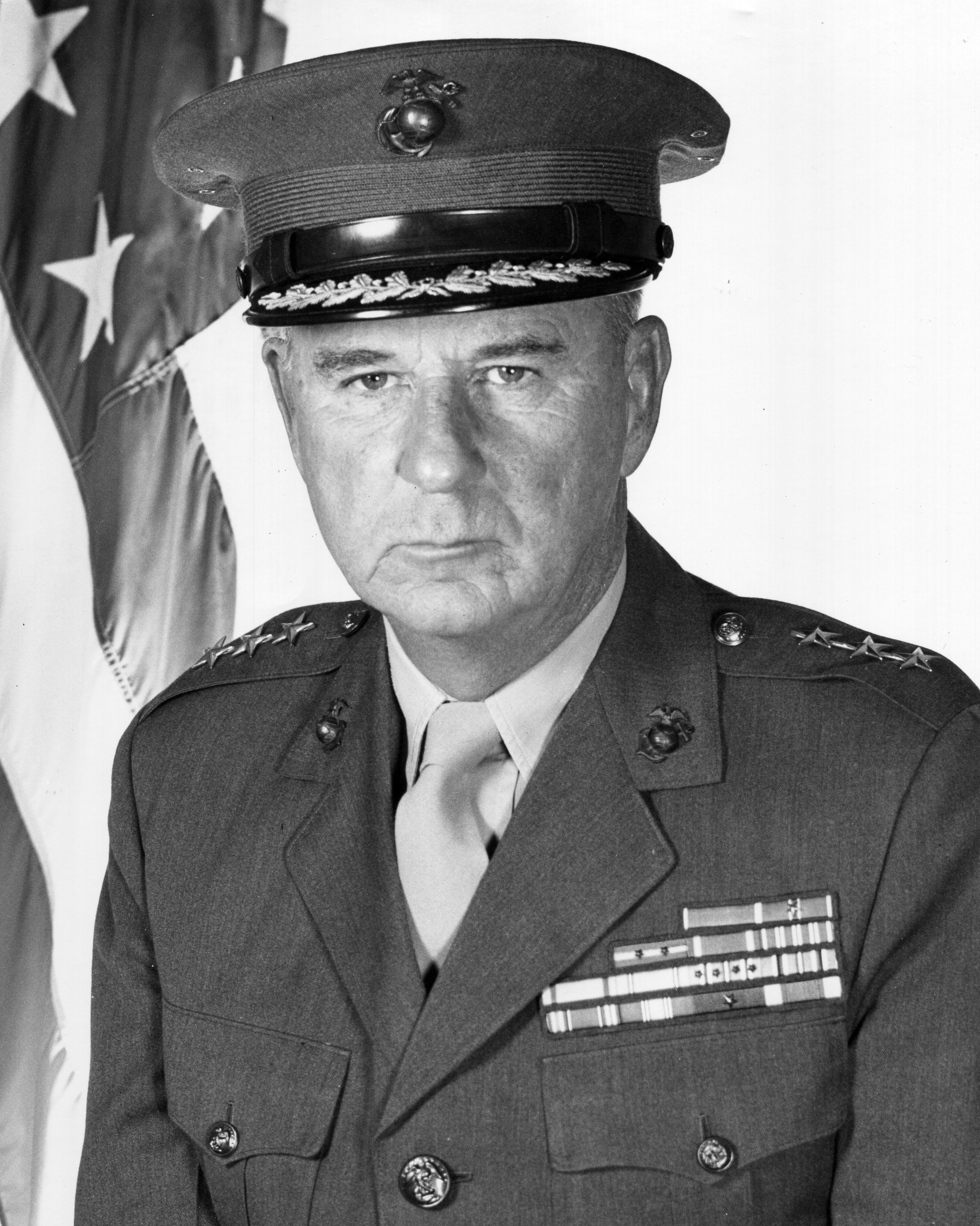 Robert Burneston Luckey (July 9, 1905 - September 9, 1974) was a decorated officer in the United States Marine Corps with the rank of Lieutenant General. A veteran of several wars, Luckey completed his career as Commanding general, Fleet Marine Force, Atlantic.